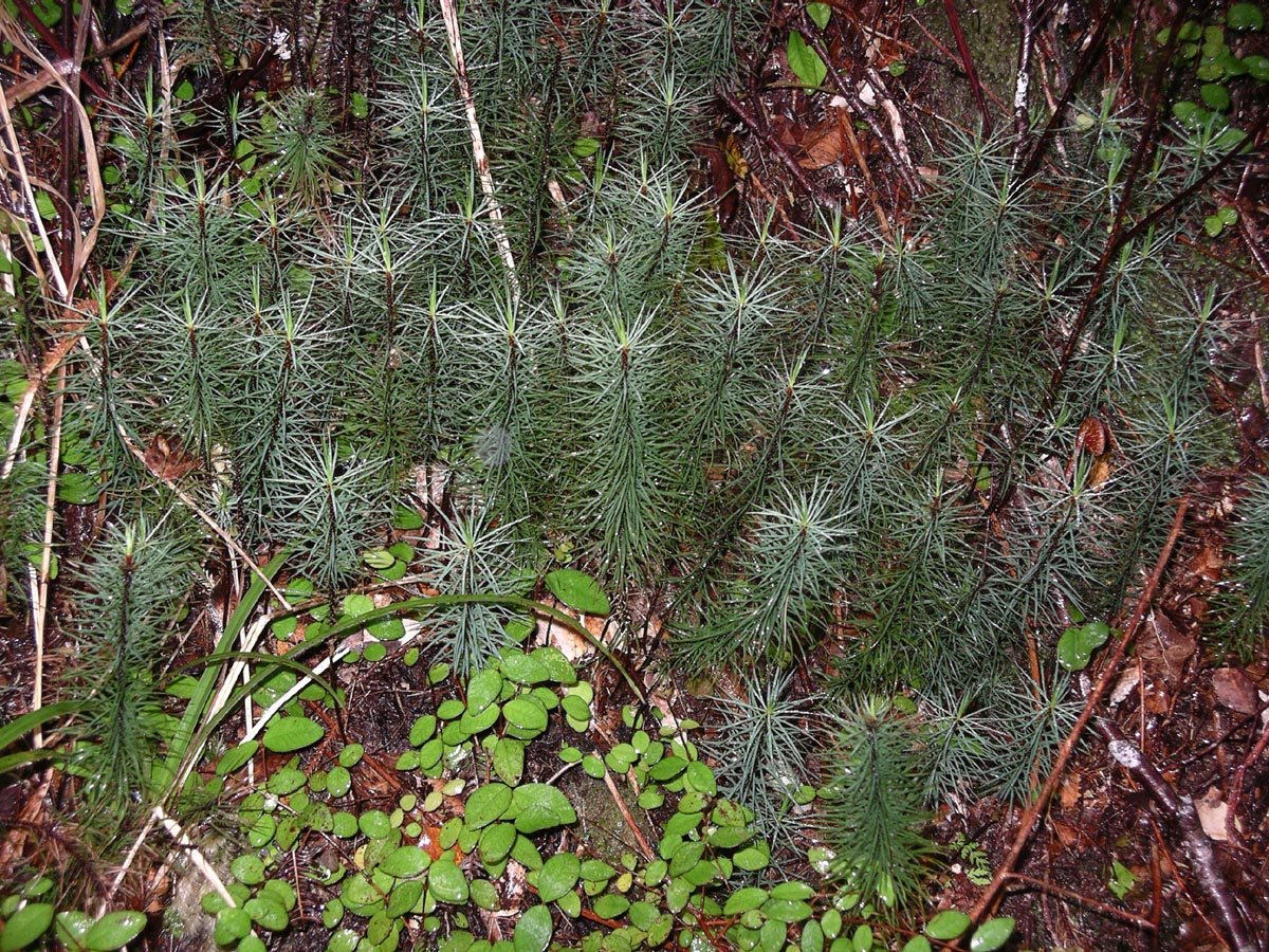 Dawsonia superba in Abel Tasman National Park, New Zealand